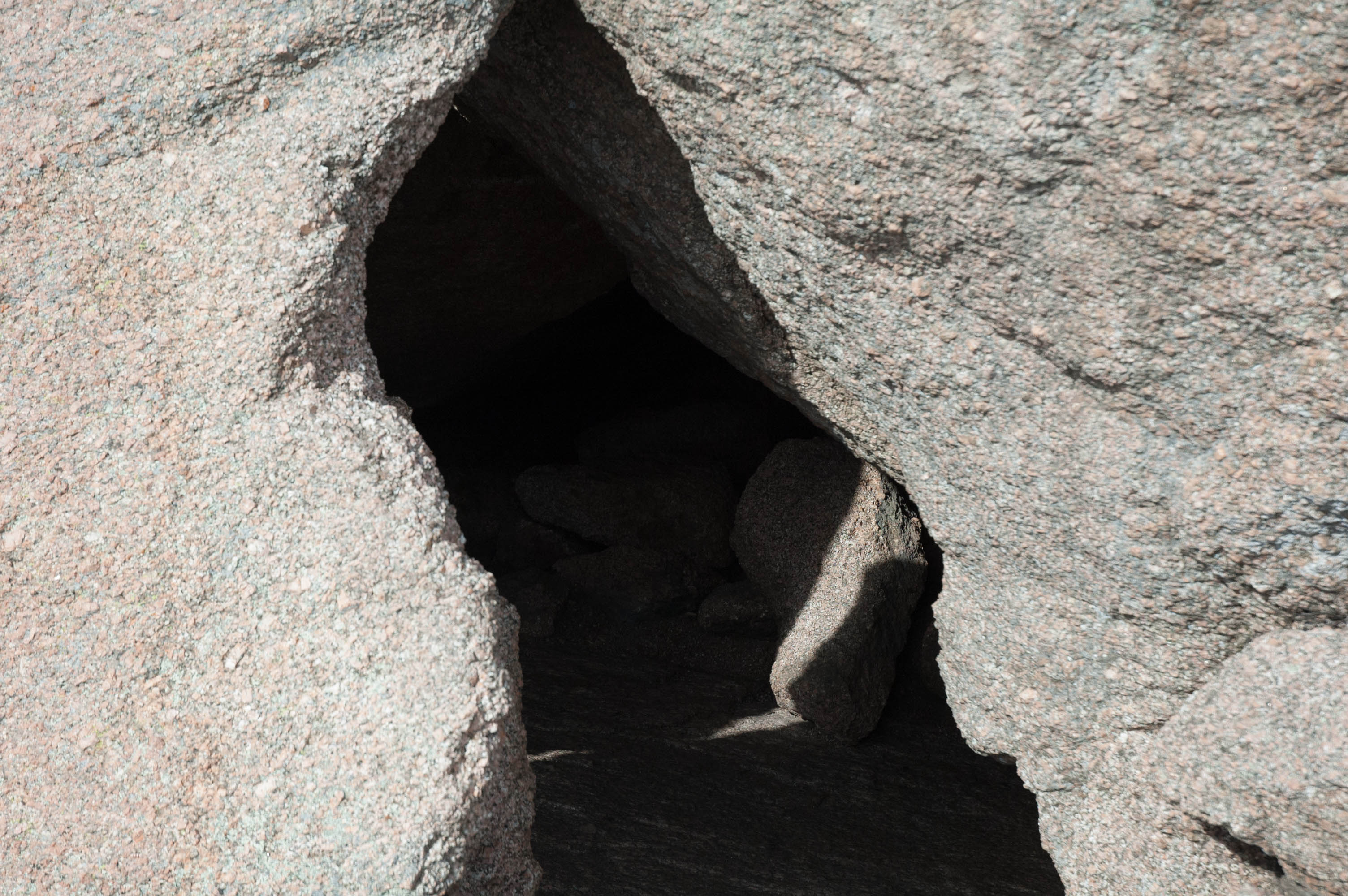 Enchanted Rock back-face caves